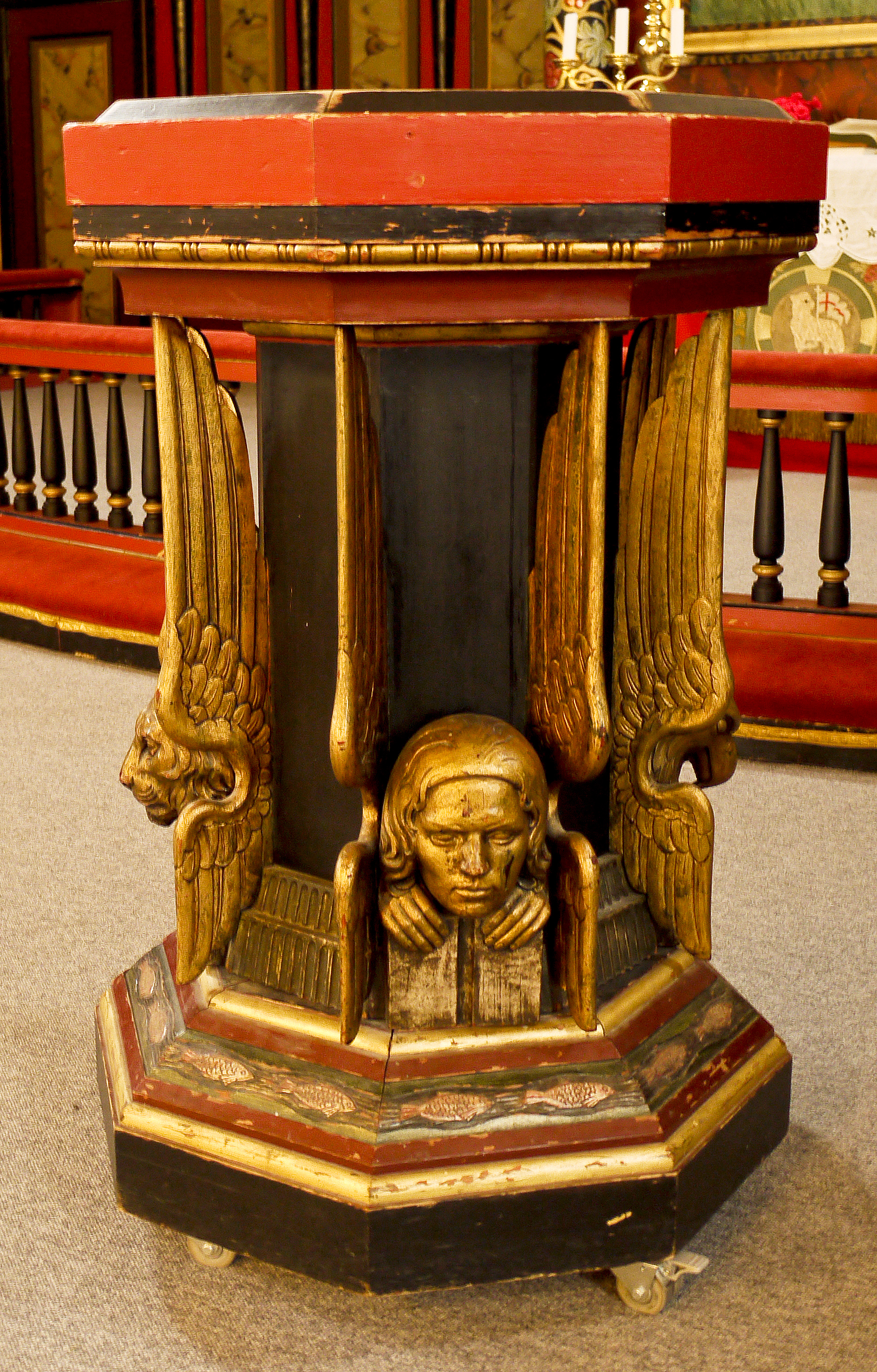 Narvik church, Narvik, Norway. Baptismal font.